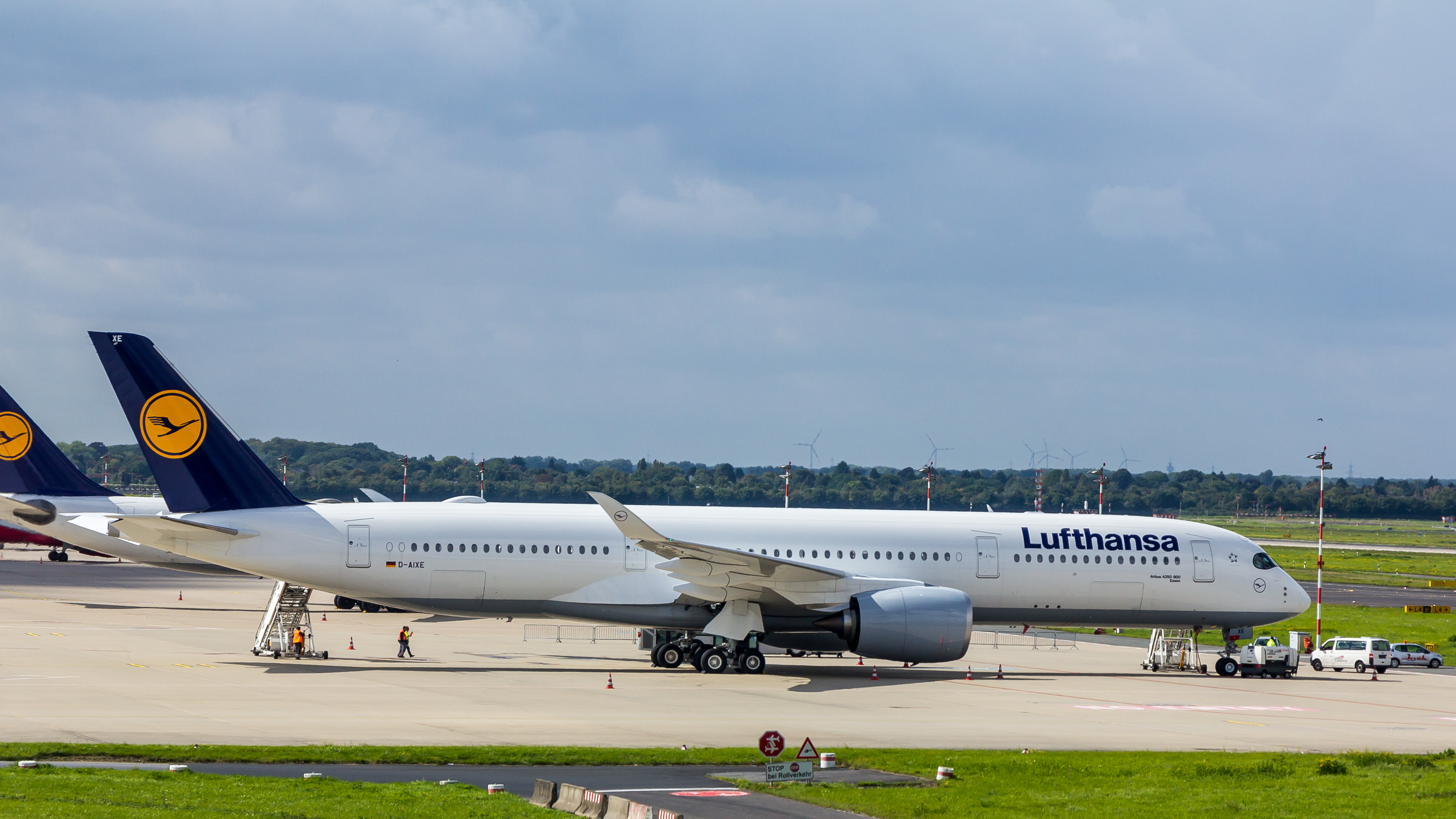 Lufthansa - Airbus A350-941 - D-AIXE - Düsseldorf Airport